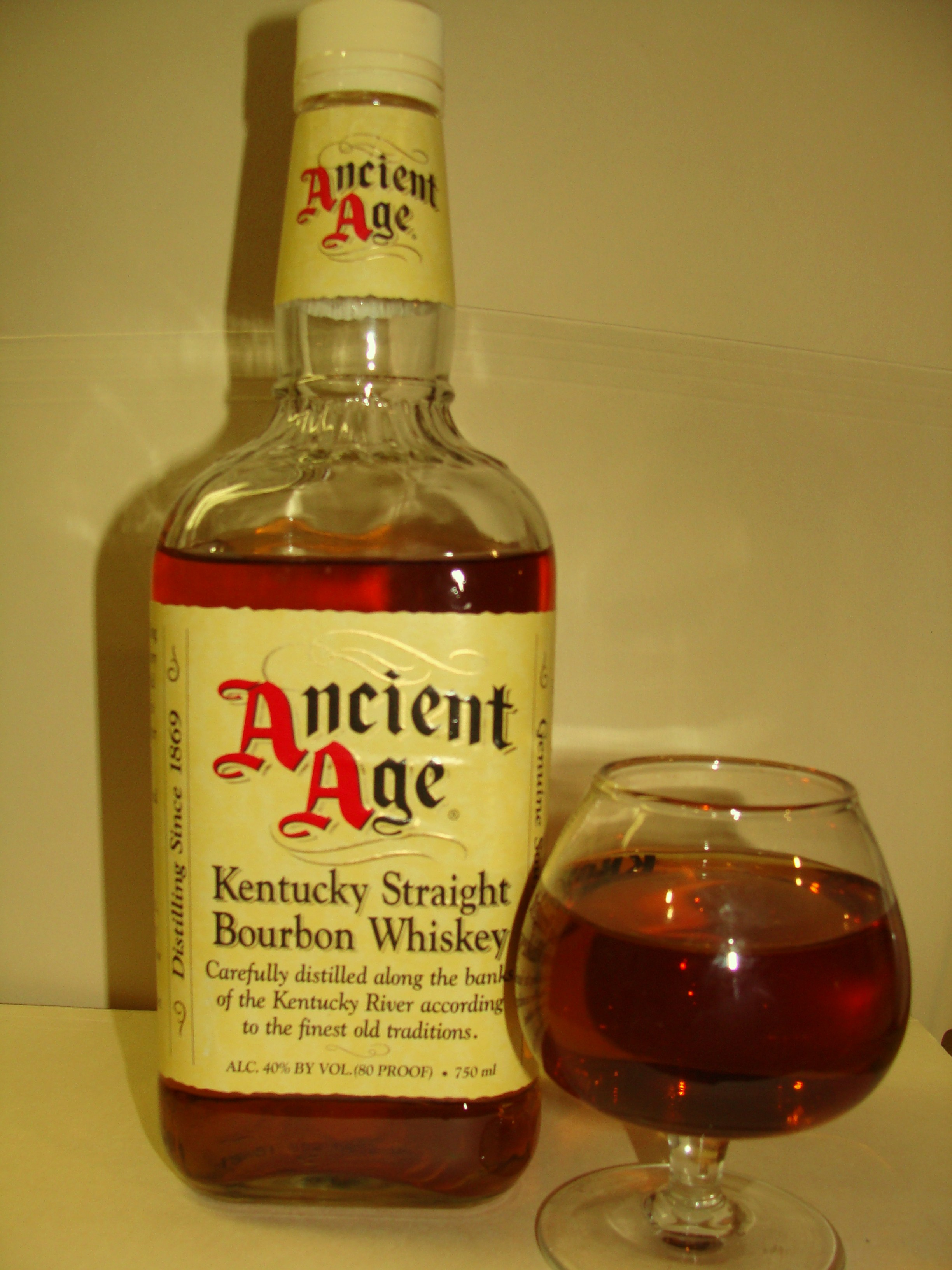 Ancient Age